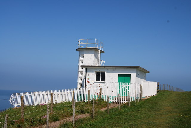 St Bees Foghorn